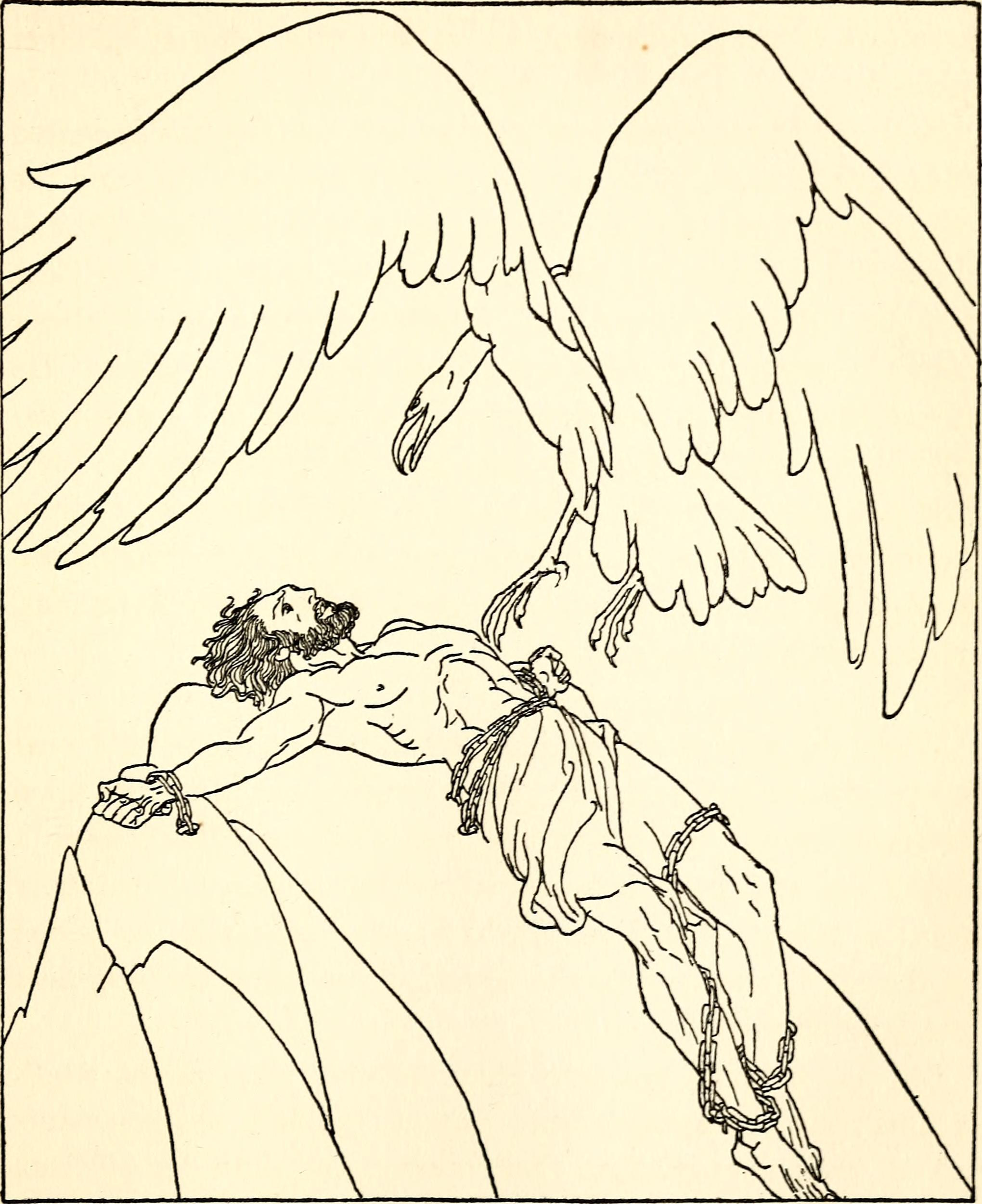 A lithograph of Prometheus tied to a rock and a bird of prey approaching.